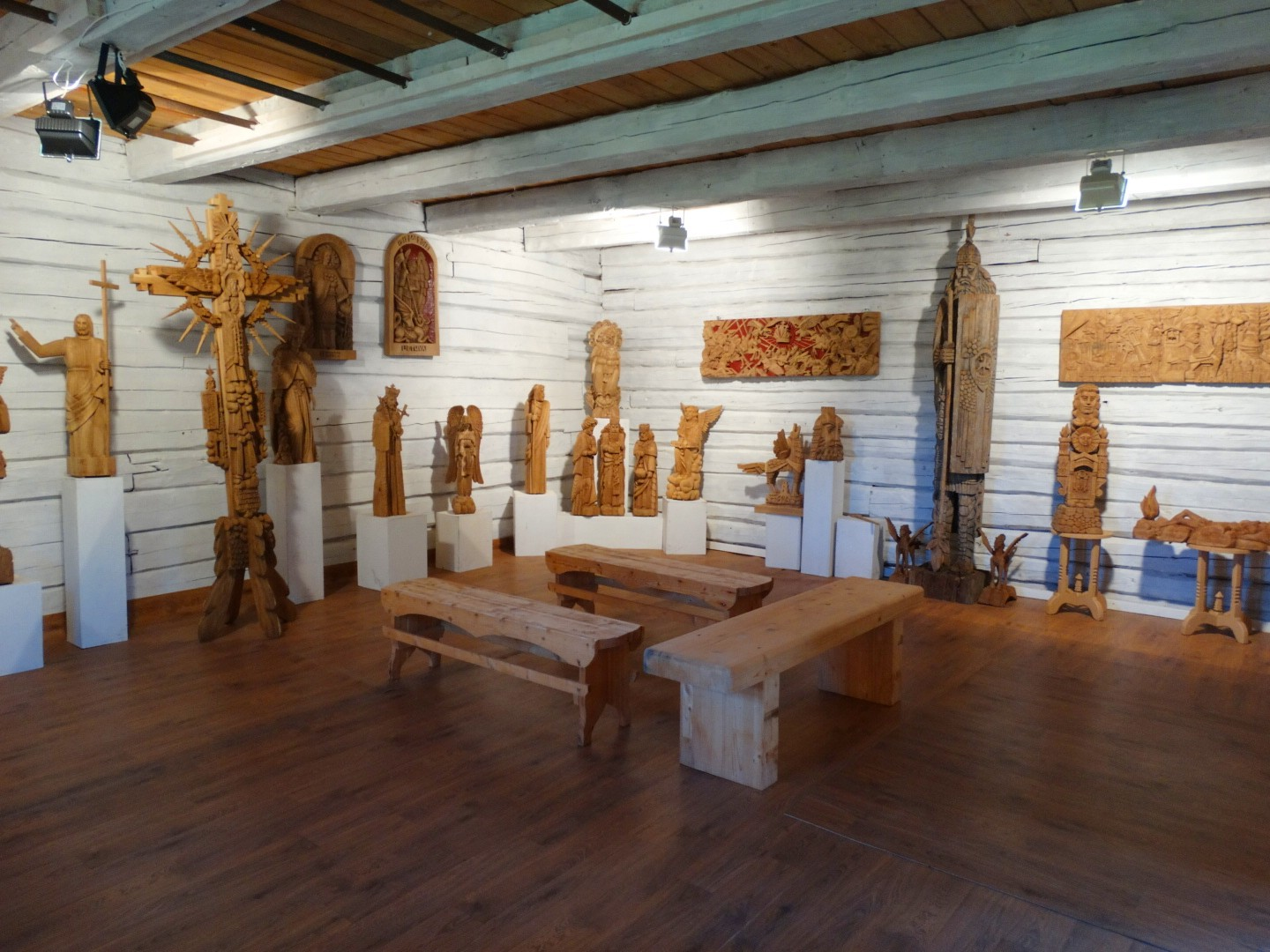 Museum of V. Ulevičius, Krakės, Lithuania